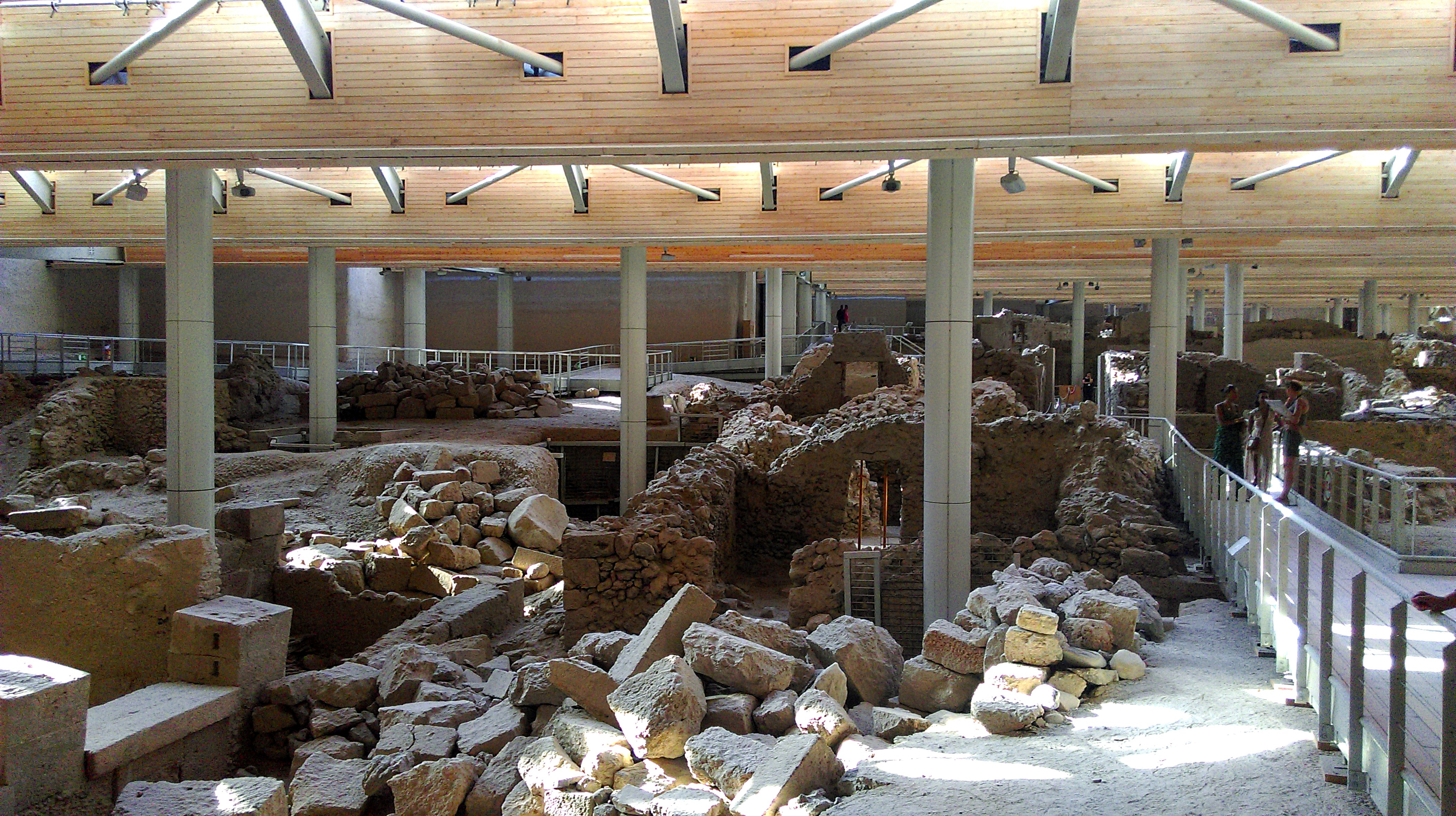 Akrotiri — Minoan Bronze Age settlement on the volcanic Greek island of Santorini (Thera).